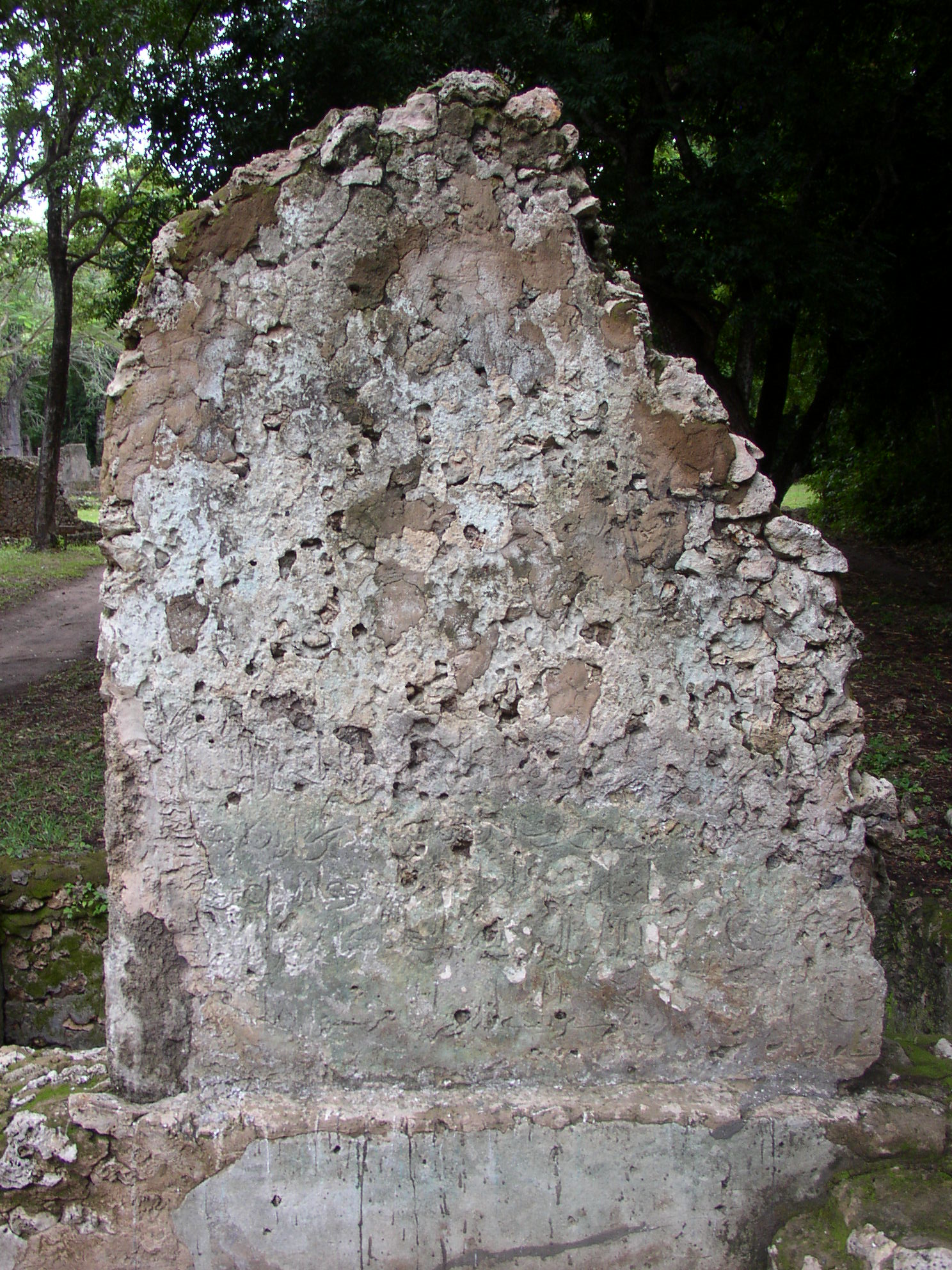 Stone slab with original Arabic inscriptions. Gede, Kenya.